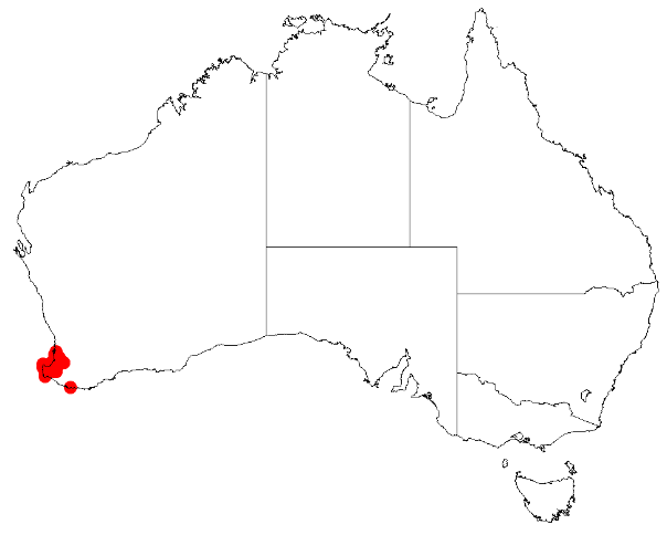 Acacia semitrullata Occurrence data from Australasia Virtual Herbarium downloaded from on 8 December 2018